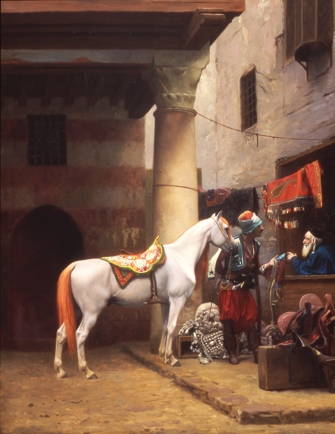 The Saddle Bazaar, Cairo (1883) by Jean-Léon Gérôme, Haggin Museum, Stockton, CA